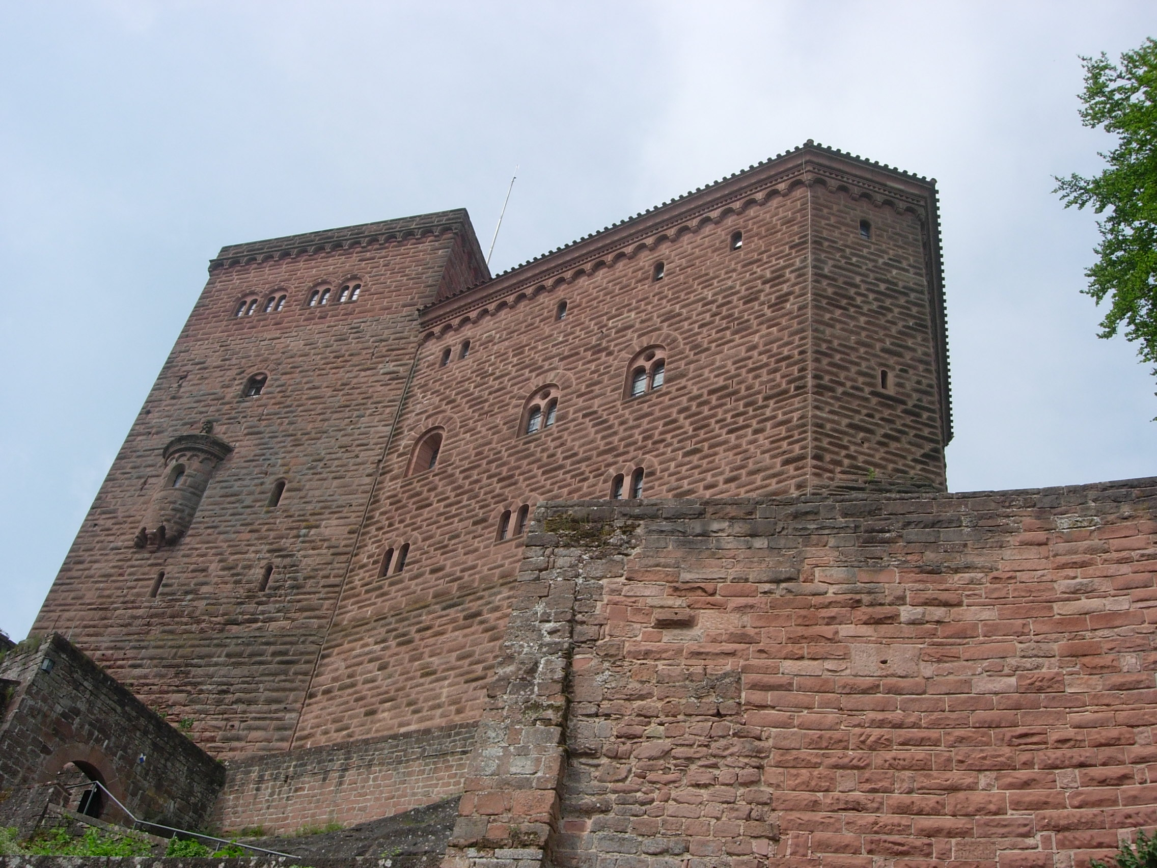 trifels castle in annweiler